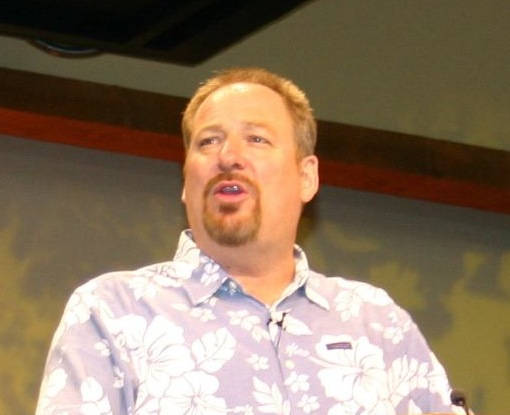 Pastor Rick Warren at Saddleback Church.